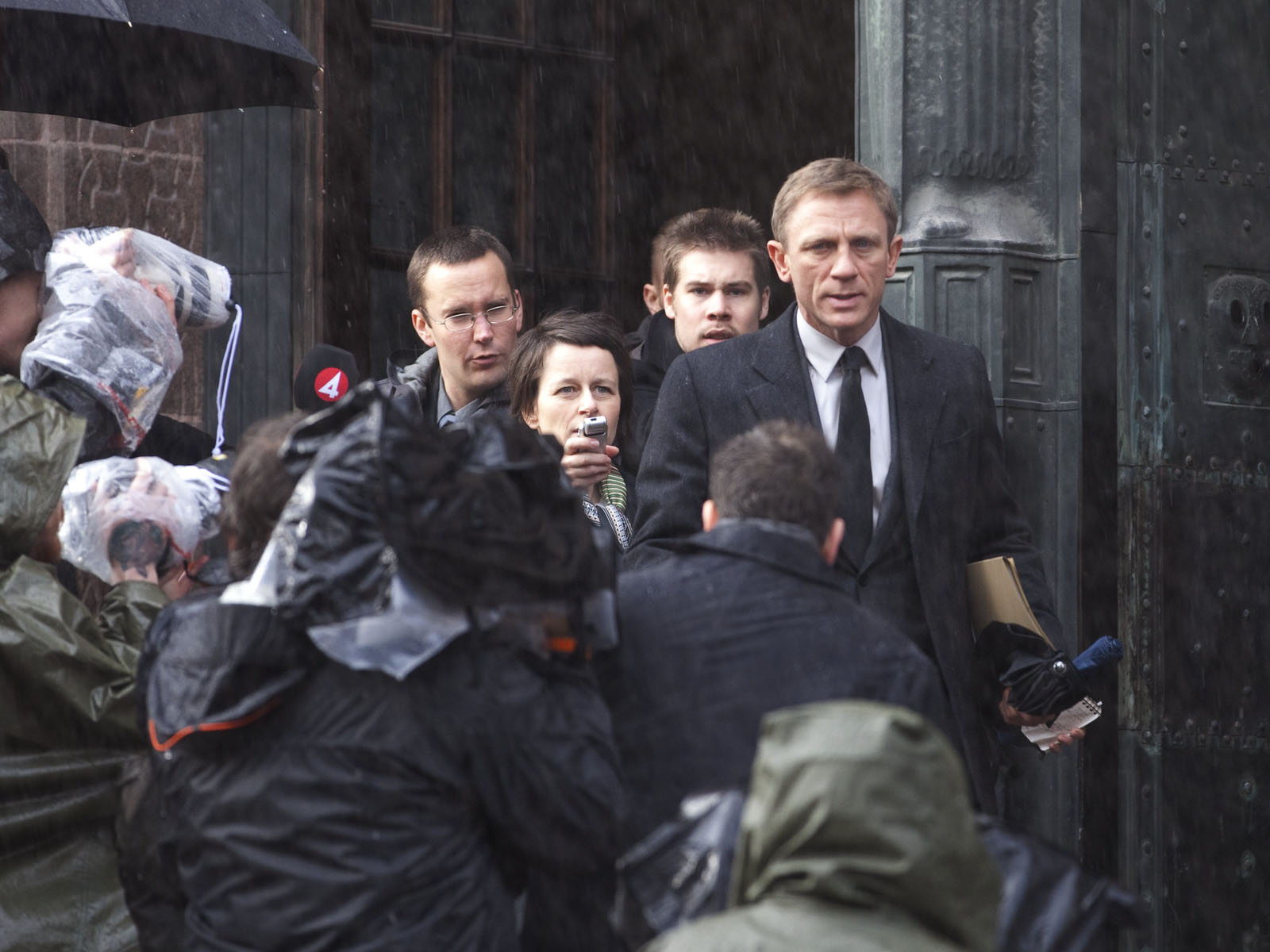 Scene from The Girl with the Dragon Tattoo recorded in the "rain" at the Rådhustrappan in Stockholm, 2011 Columbia Tristar Marketing Group. Inc.